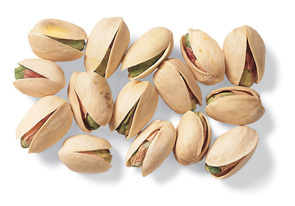 Pistachios